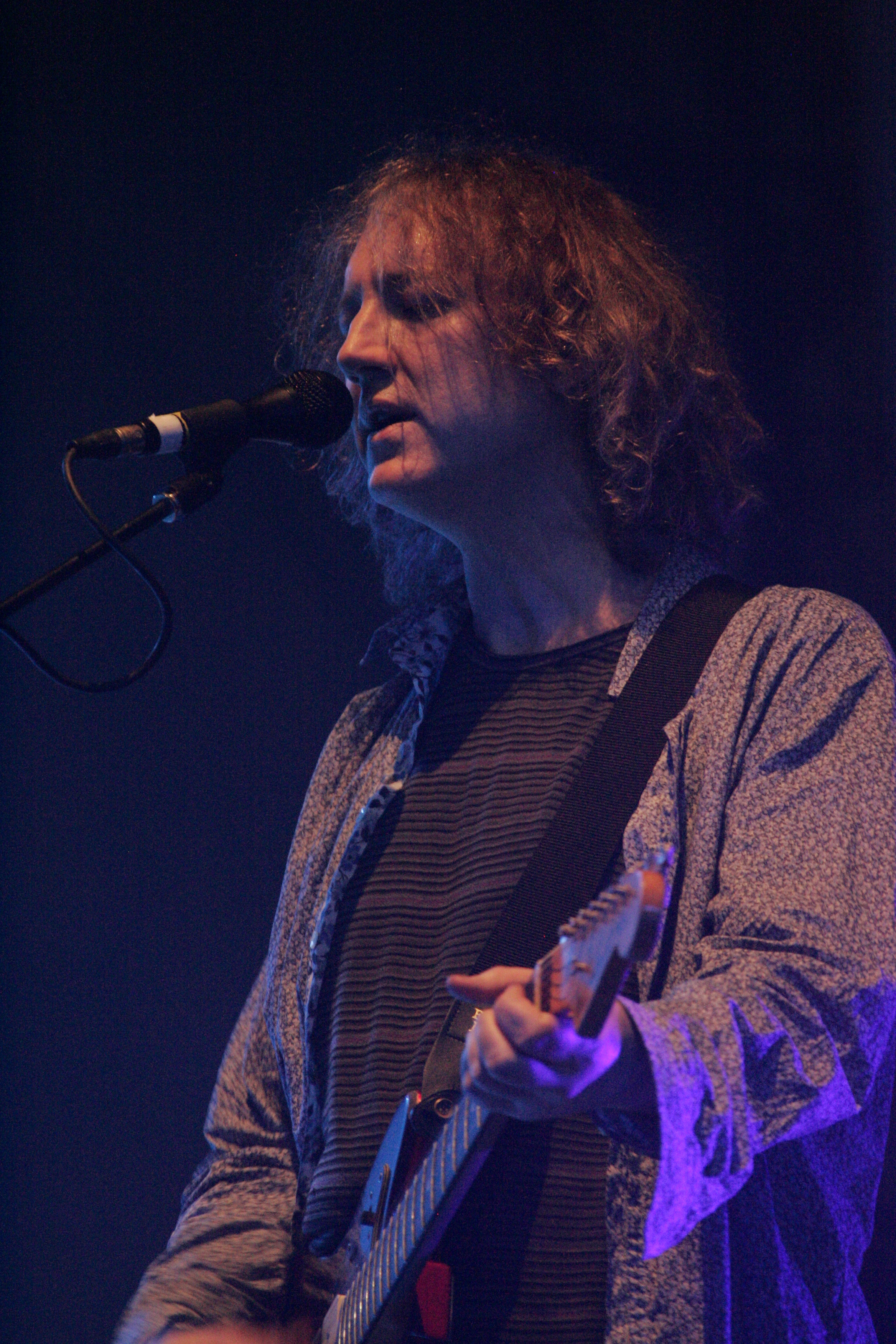 Kevin Patrick Shields performing with My Bloody Valentine on day three of the 2009 Coachella Music and Arts Festival in Indio, CA